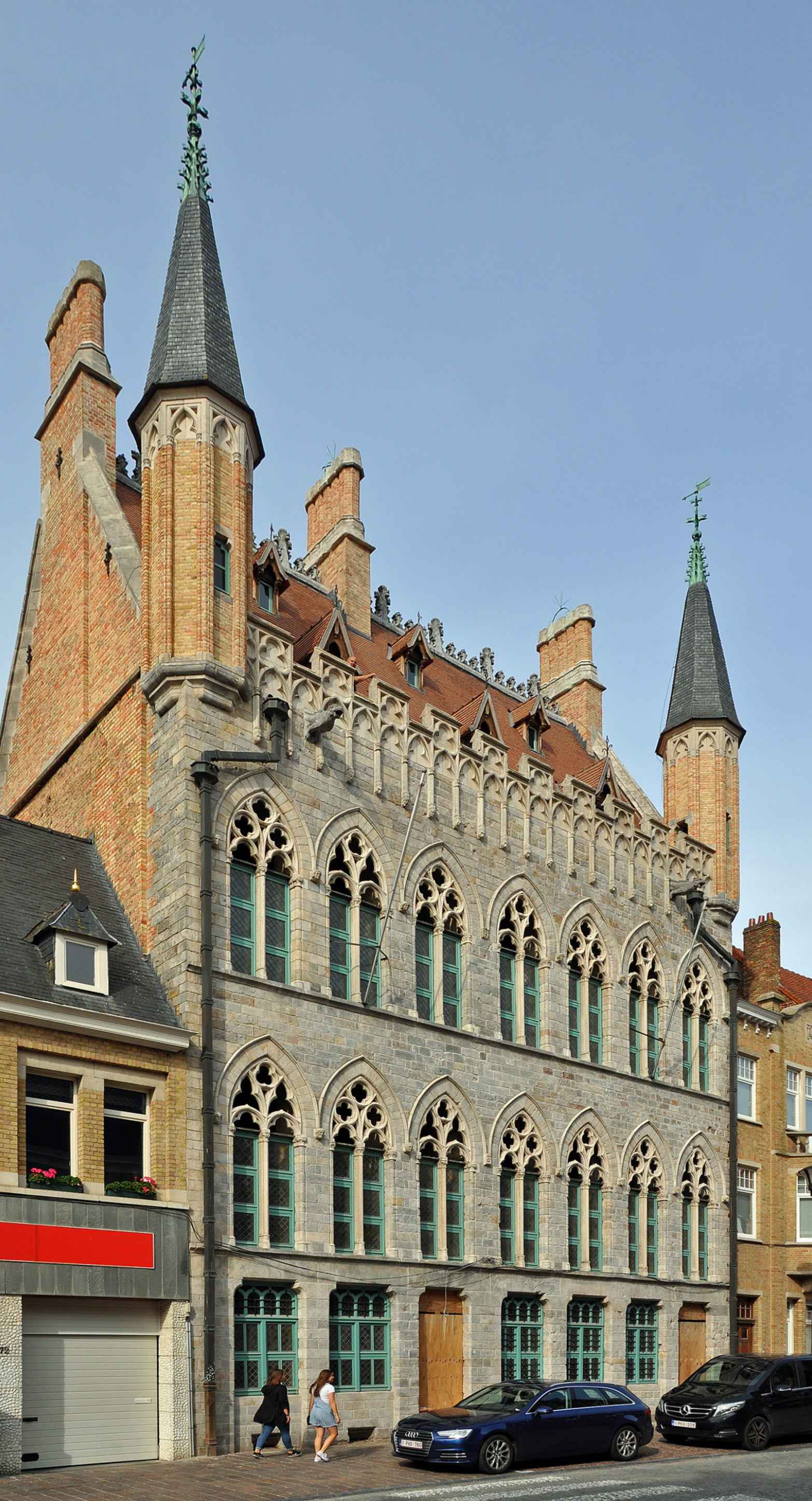 Ypres (Belgium), Rijselstraat 70: the Tempelierssteen or former Post Office